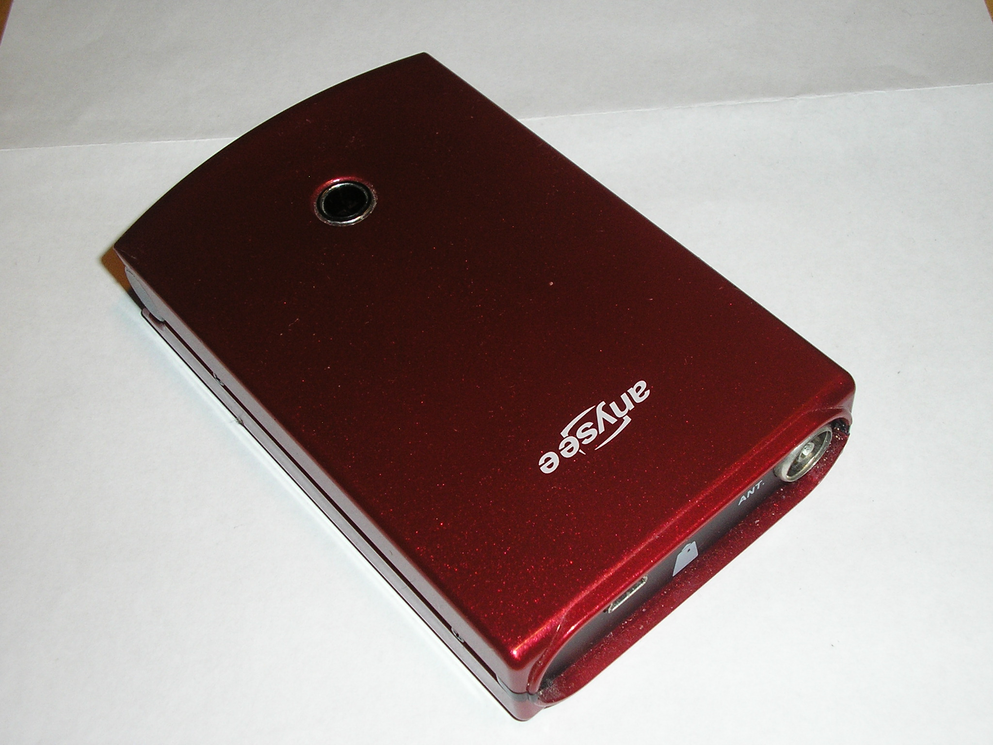 Anysee E30 plus external television tuner